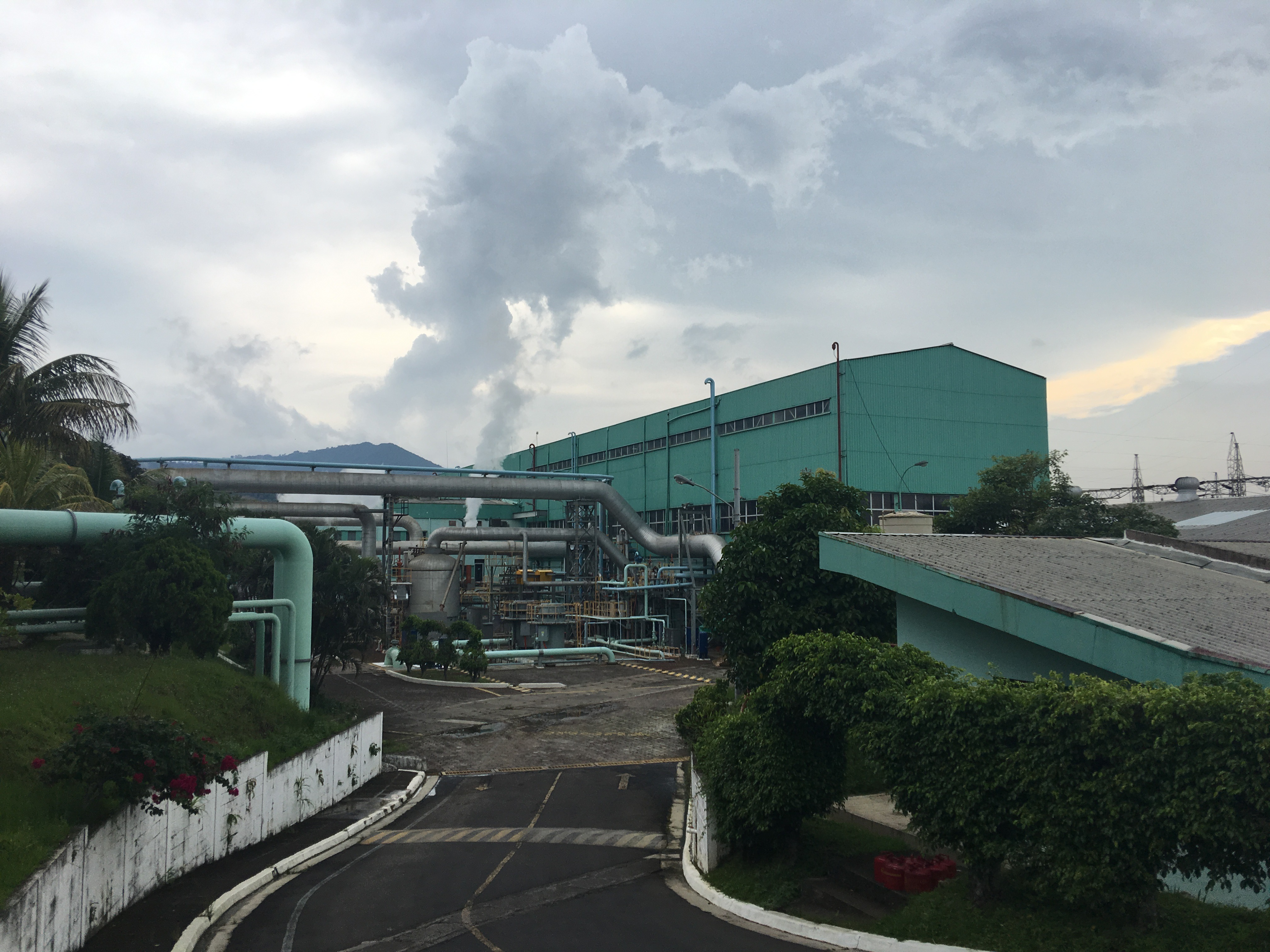 Pictures from a site visit to the 95 MW Ahuachapán Geothermal Power Plant in El Salvador, courtesy of LaGeo and IRENA.